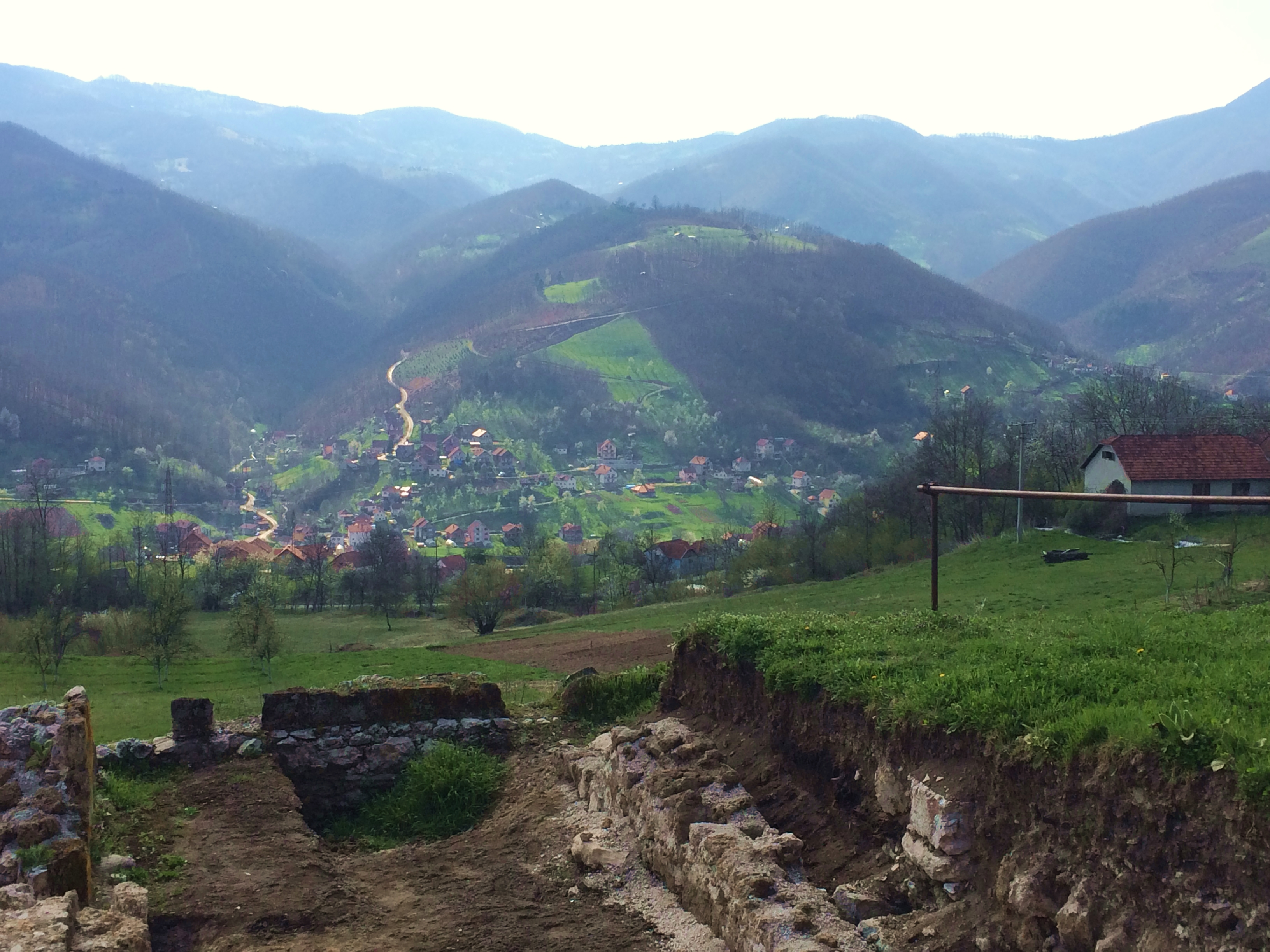 Panorama looking over the Banja settlement of Priboj, southwestern Serbia